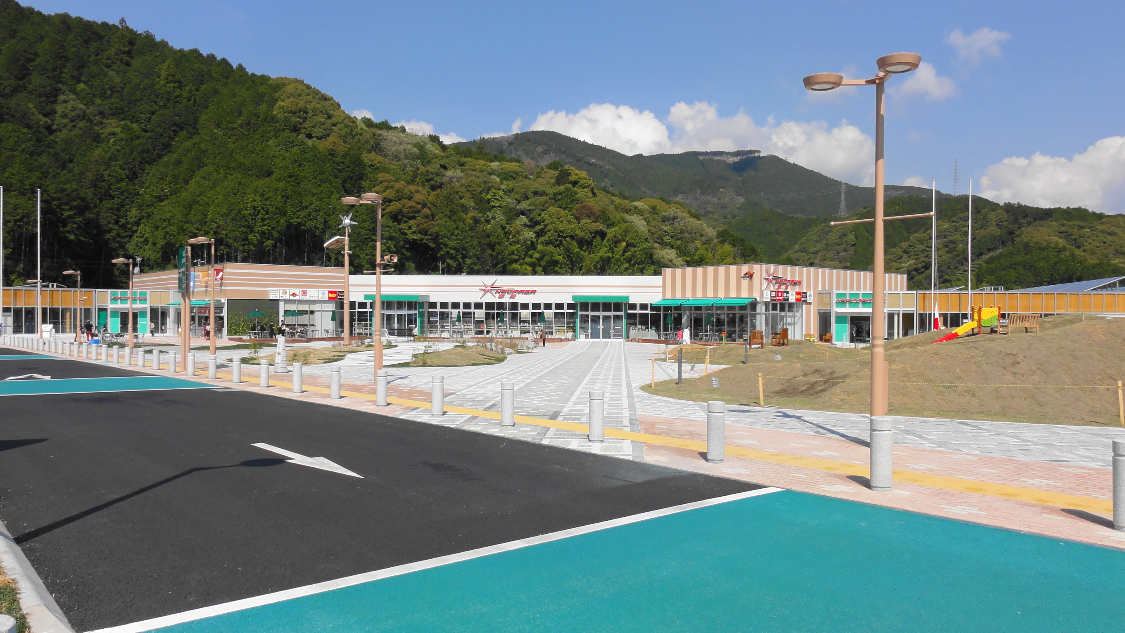 Shizuoka service Area nobori,Shizuoka prefecture, Japan